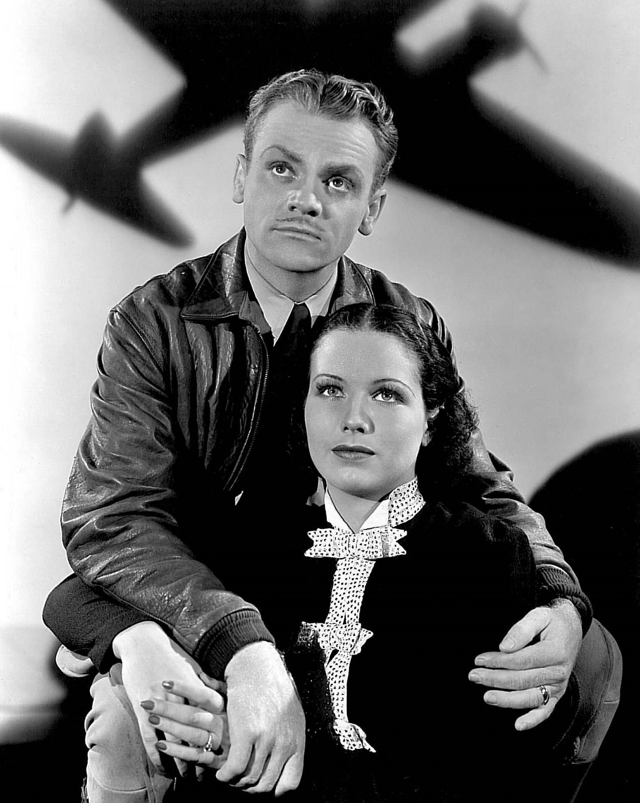 James Cagney & June Travis in Ceiling Zero - publicity still